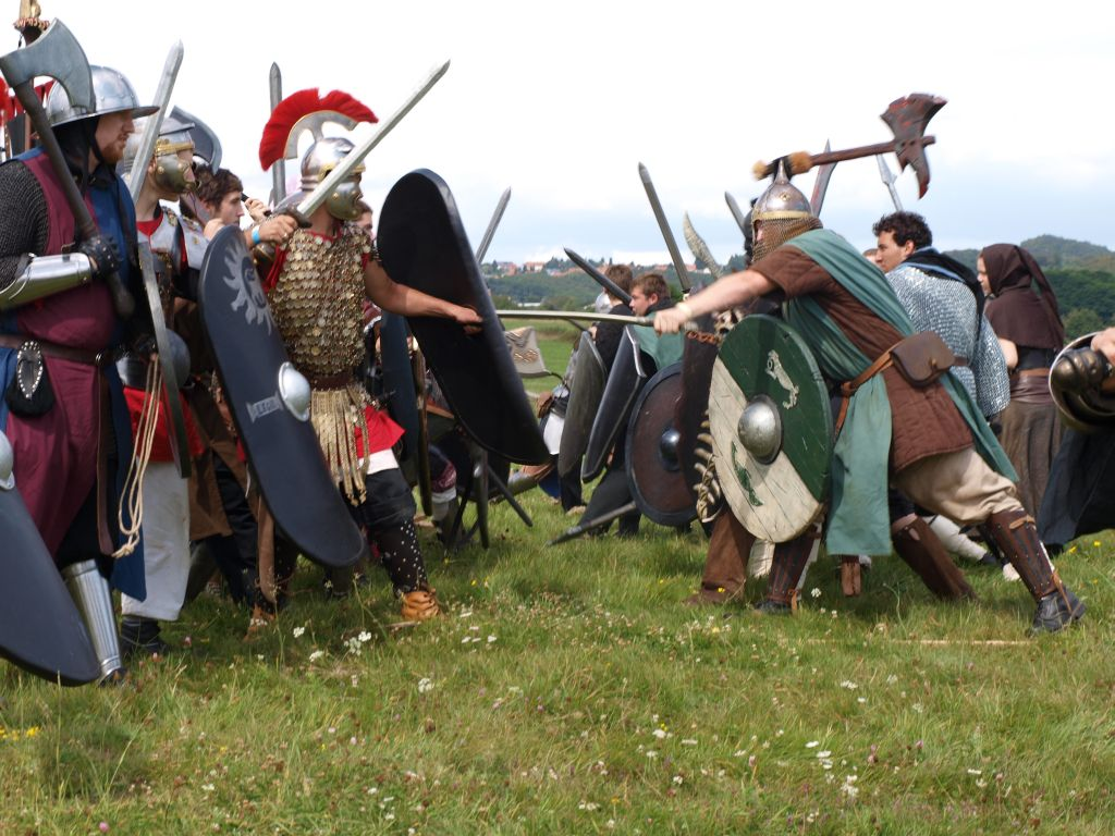 Life Action Role Playing (LARP) - Flattr this!